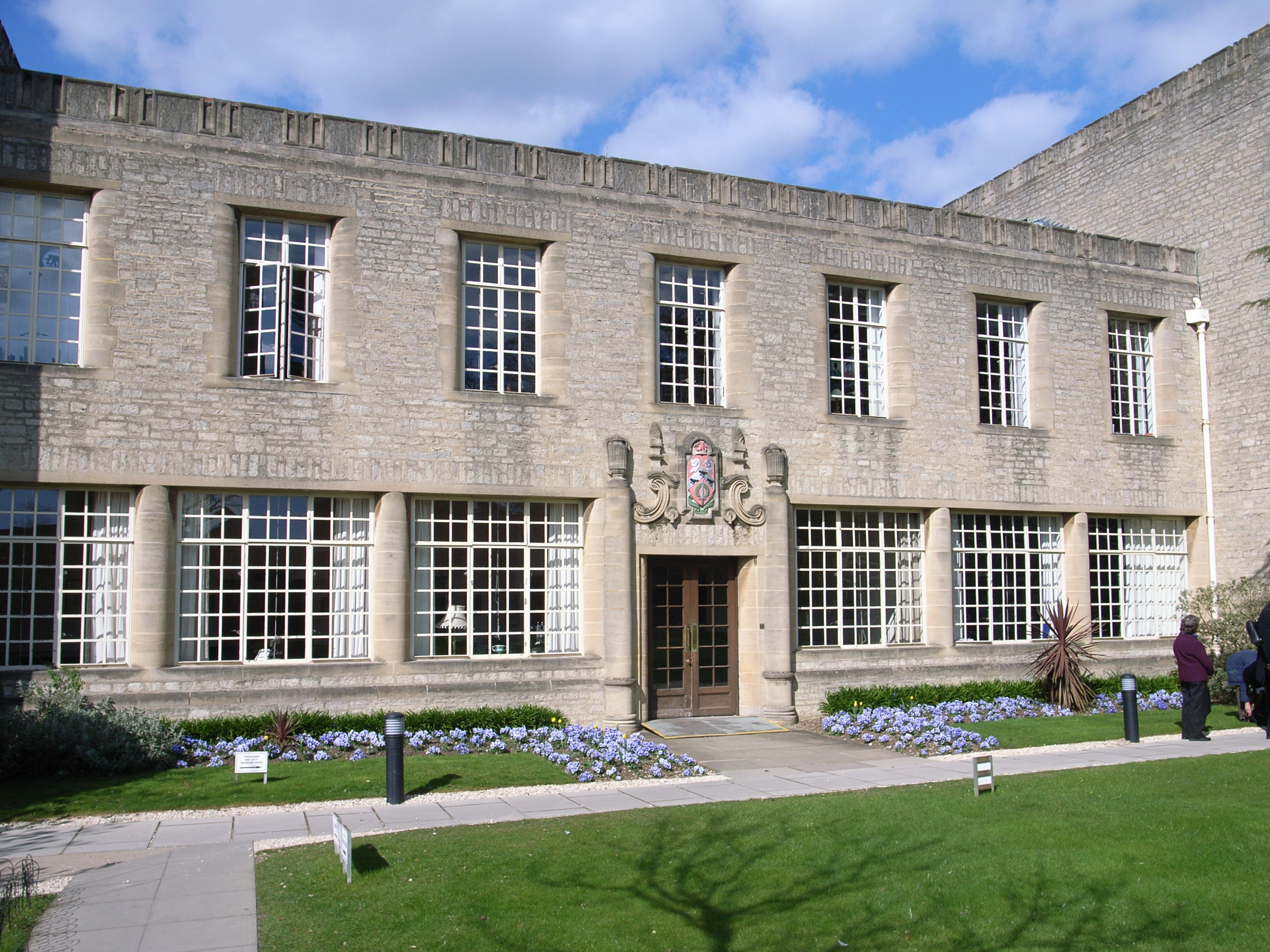 Hartland House at St Anne's College, Oxford